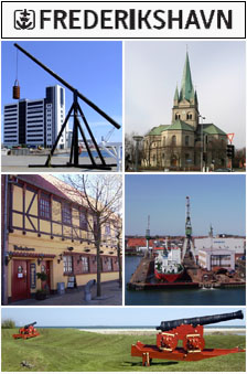 A collage for use on the Frederikshavn article, inspired by a similar on Frederikshavn. It is made using (portions of) the following commons-media: Frederikshavn logo 02.png 060703 Kattegatsilo 02.jpg 57°26′21″N 10°32′42″E / 57.439124°N 10.544922°E Fred2 2005 ubt.jpeg 57°26′25″N 10°32′18″E / 57.440392°N 10.538395°E Frederikshavn den 2 maj 2007, bild 3.jpg 57°26′13″N 10°32′10″E / 57.436868°N 10.535999°E Frederikshavn den 2 maj 2007, bild 36.JPG 57°26′10″N 10°32′36″E / 57.436071°N 10.543243°E Wiki-NordreSkanse.jpg 57°27′01″N 10°32′42″E / 57.450352°N 10.544975°E